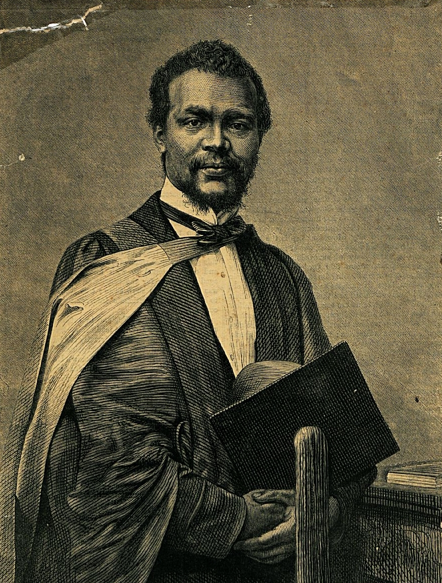 Lithograph taken from Dr Christopher James Davis' obituary